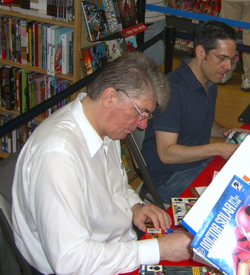 Writer Jim Shooter (left) and artist Dennis Calero (right) at a signing for Dark Horse Comics’ Doctor Solar, Man of the Atom at Midtown Comics Times Square in Manhattan, July 17, 2010. Photo by Luigi Novi. This photo may be used, modified and published for any purpose, only if the photographer is visibly credited in each instance in which it is used. (See licensing information below.) For more information on my photos, you can contact me here.